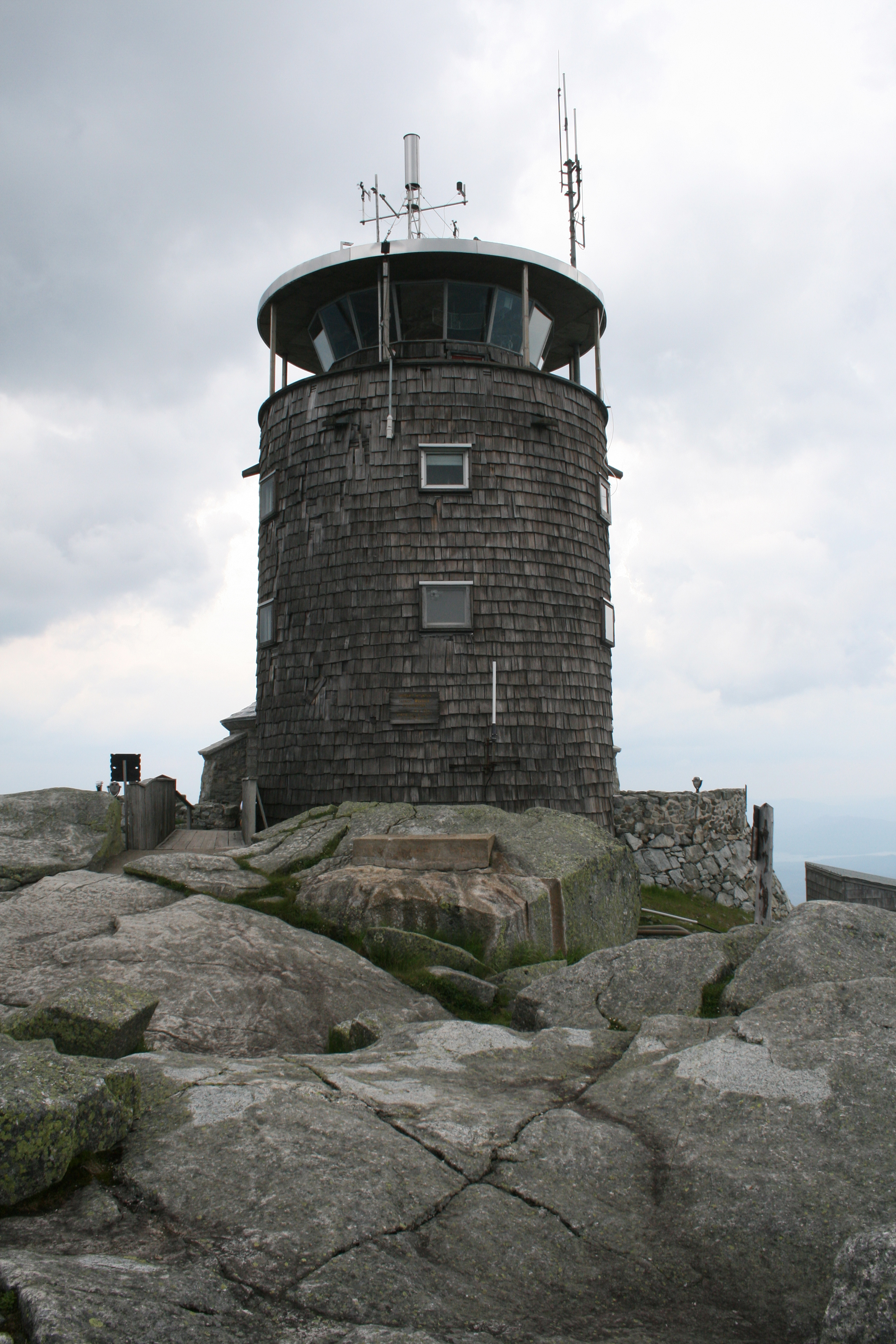 The meteorological station and visitor building at the summit of Whiteface Mountain in the Adirondacks